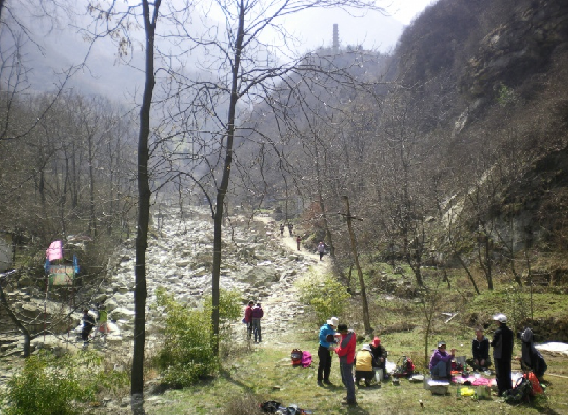 Way to Zige Ta, located in Zigeyucun, Hu county, Xi'an, Shaanxi Province, China